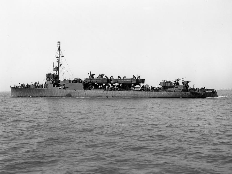 The U.S. Navy high speed transport USS Schley (APD-14) underway off the Mare Island Navy Yard, California (USA), on 2 October 1943, following overhaul.